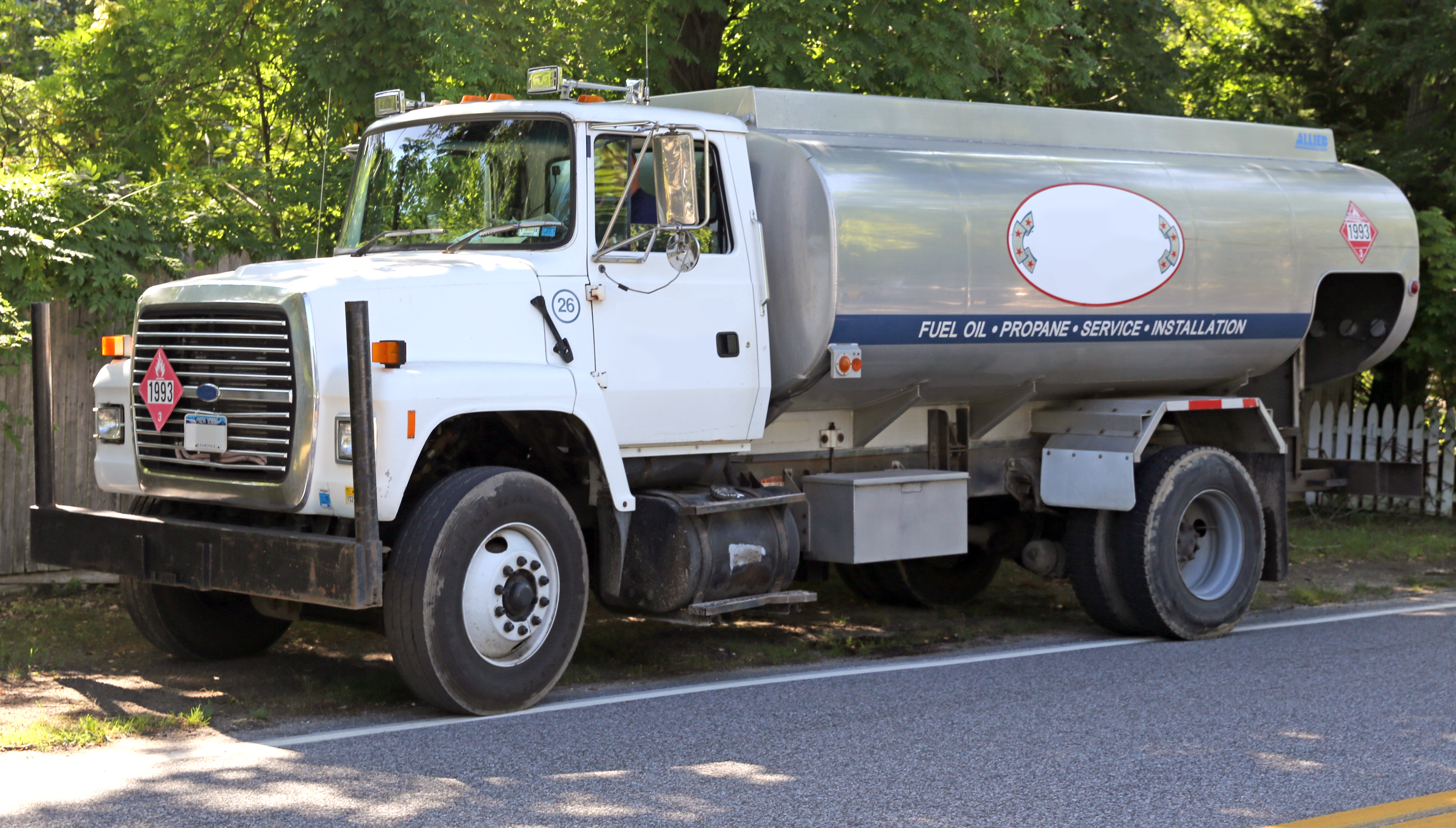 A Ford L9000 oil truck (or is it an LN9000? Don't know enough to tell) in Amagansett, NY.